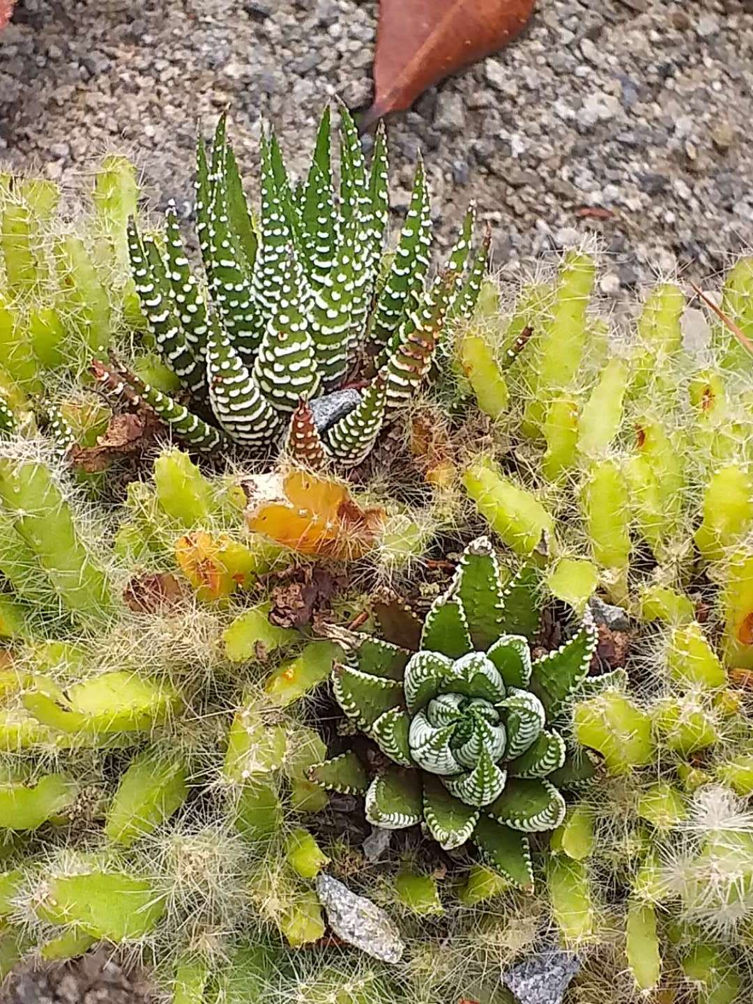 The leaves are green with narrow white crested strips on the outside. 2018 Taichung World Flora Exposition, Taiwan.